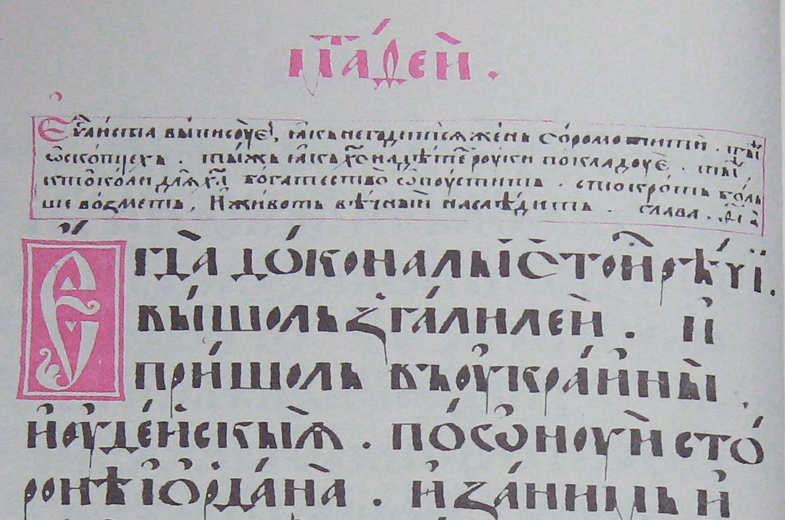 Peresopnytsia Gospel, Matthew 19:1. Excerpt in which word "ukrainy" (оукраины) corresponds to "coasts" (KJV Bible) or "region" (NIV Bible) (of Judaea).